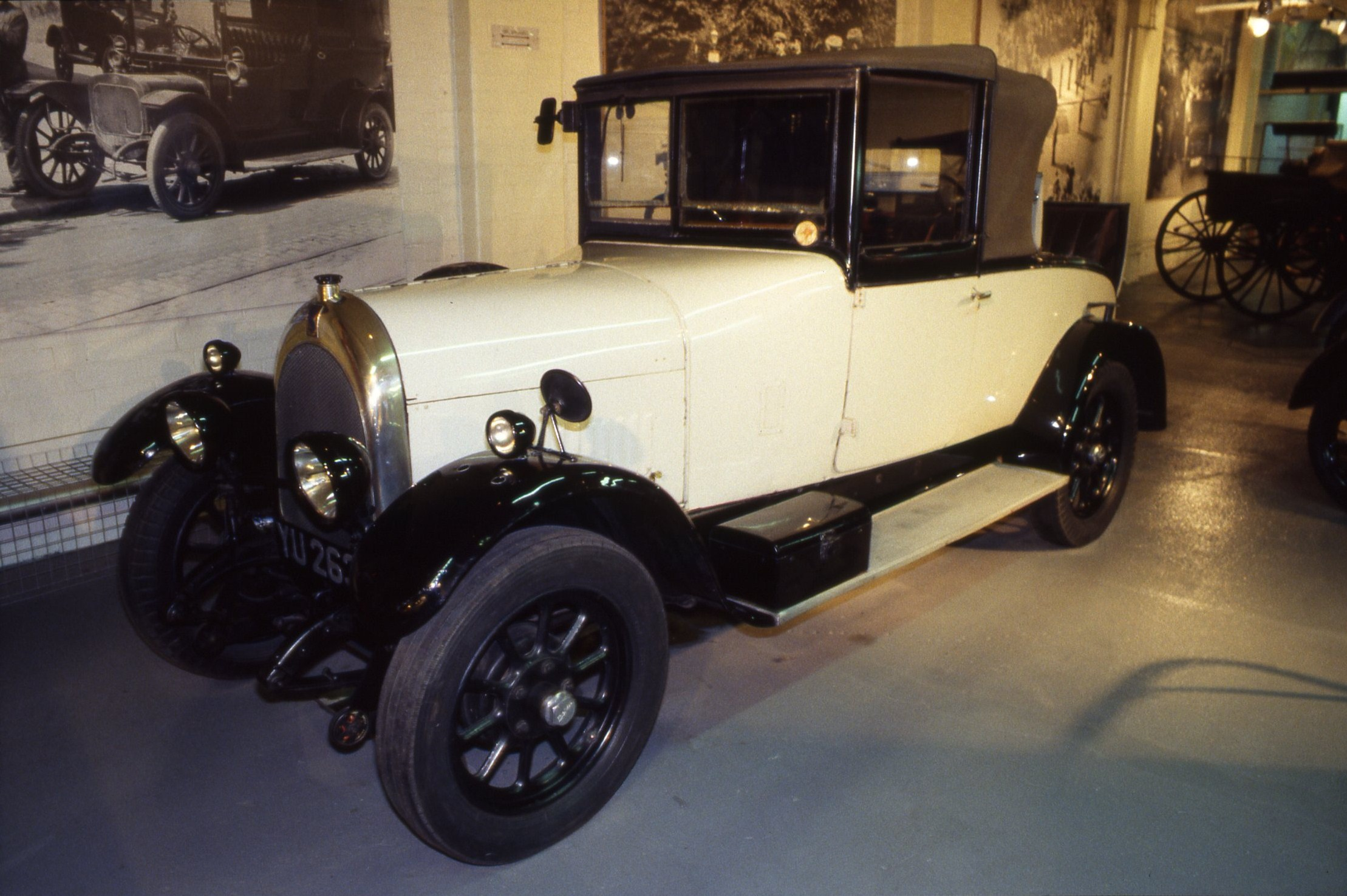 1927 Bean 14 coupé in the then Museum of Science and Industry, Newhall Street, Birmingham, which closed in 1997. Many exhibits were then moved to Thinktank which later opened as an entrance-fee-based exhibition in Millennium Point in Eastside, in September 2001.